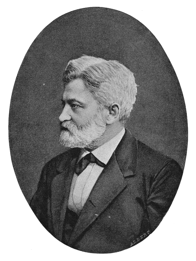 Carl Siegmund Franz Credé (1819-1892), German gynaecologist